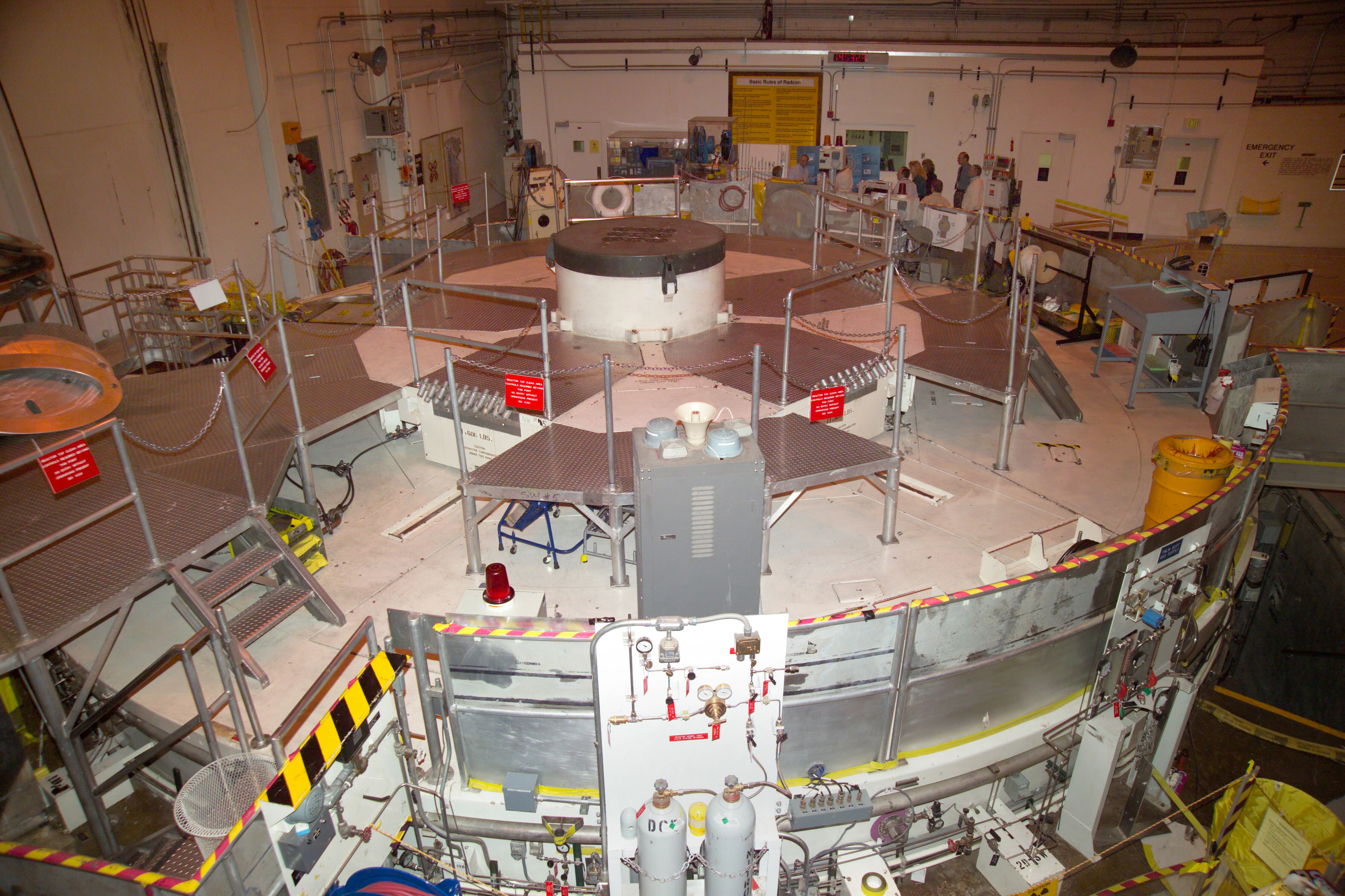 The Advanced Test Reactor has been testing fuels and materials for the nuclear Navy, government and commercial industry since 1967. It also produces valuable medical and industrial isotopes.